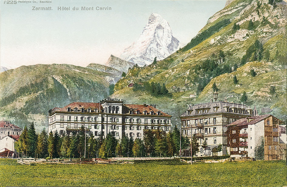 Zermatt at the beginning of the 20th century